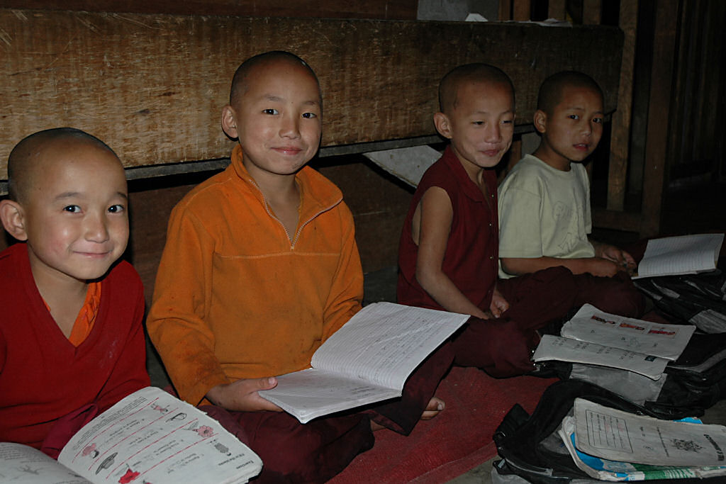 School near Mangan that combines regular curriculum with Buddhist studies for poor families in the area.